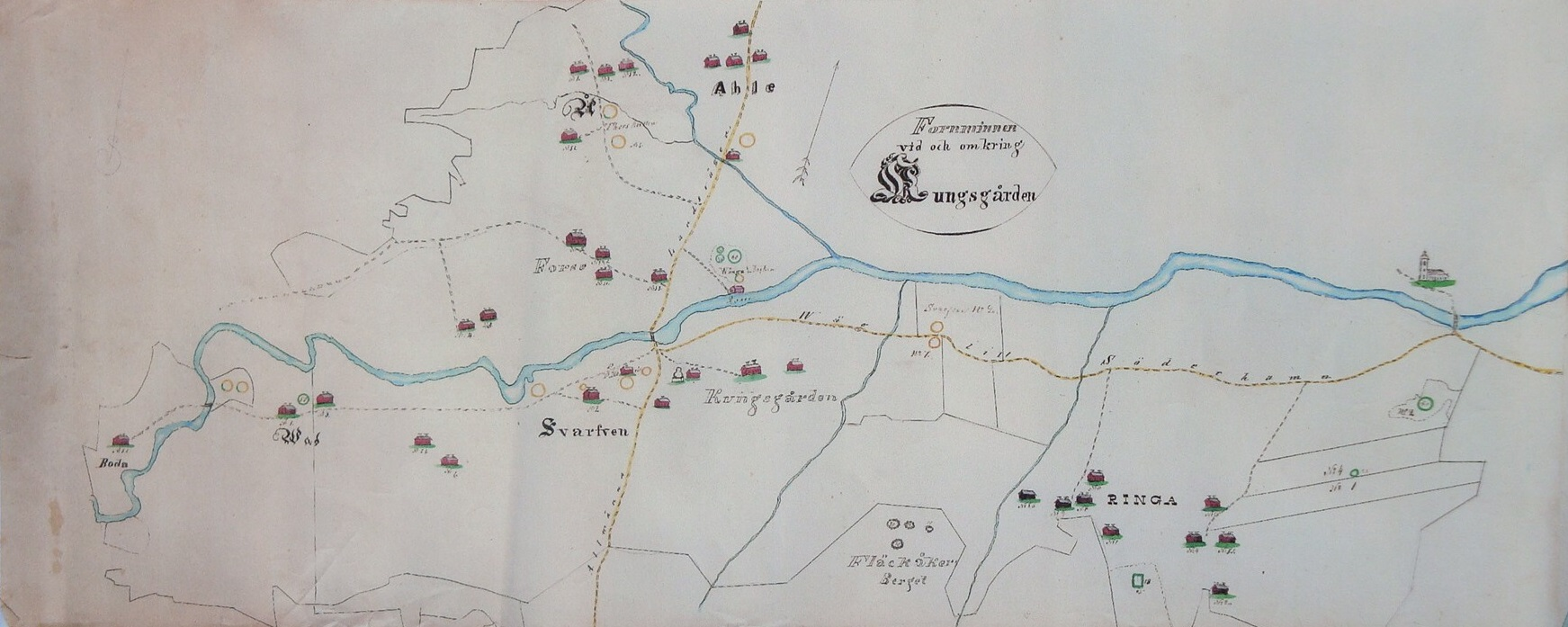 A photograph taken by Urban Sikeborg (the author) of a map from the 1860ies depicting Iron Age grave mounds in the area of Kungsgården and the surrounding hamlets Ringa, Svarven, Vad, Fors, Å and Ale in the parish of Norrala in the province of Hälsingland, Sweden. The map was drawn as part of the inventories made in various parishes in Hälsingland on the initiative of Hälsinglands fornminnessällskap. The inventory in Norrala was done by Erik Mickelsson from Enånger. The map is now stored in the archives of the Hälsinglands fornminnessällskap at the Hälsinglands museum in Hudiksvall.